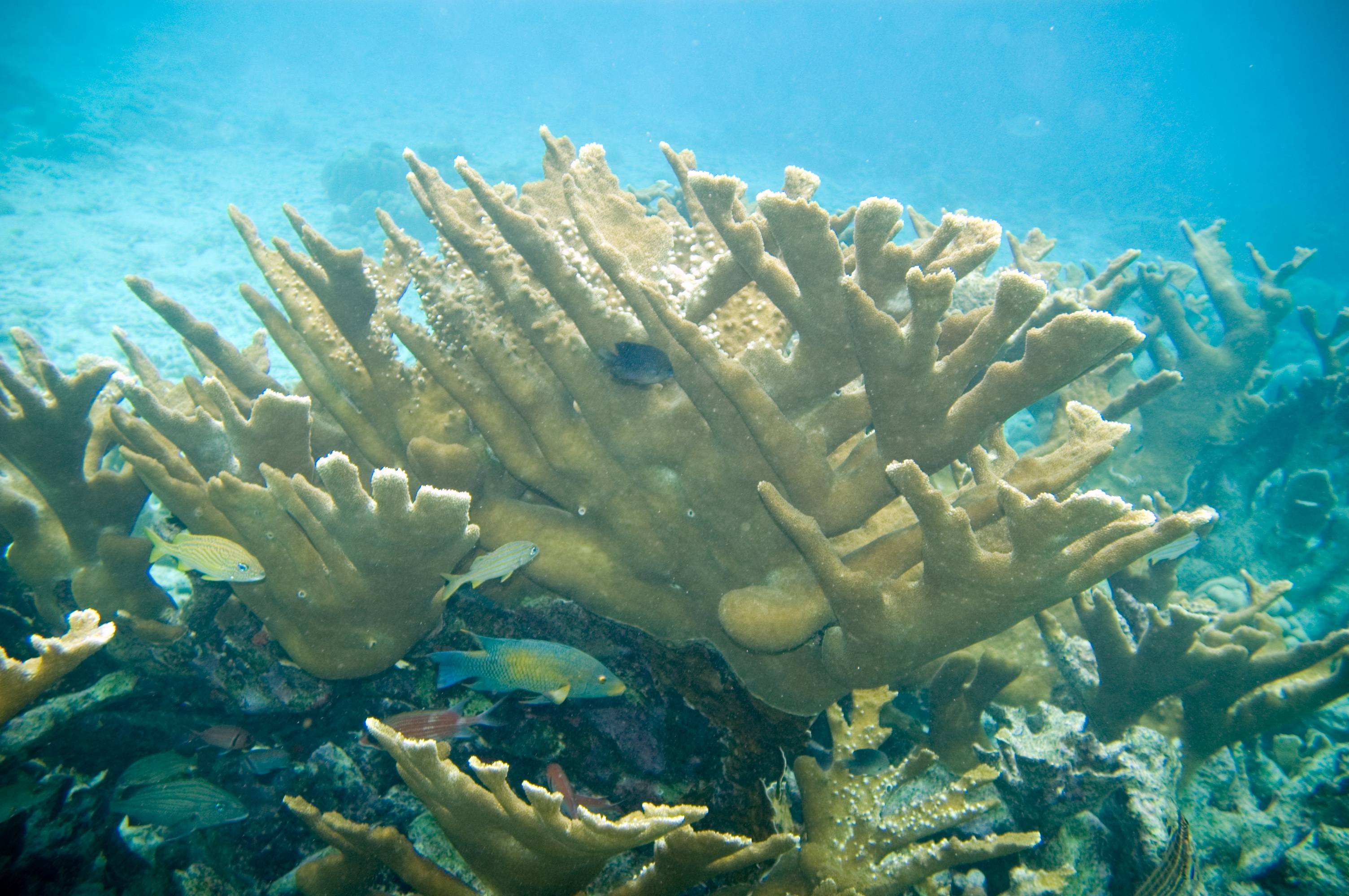 in front of elkhorn coral Acropora palmata